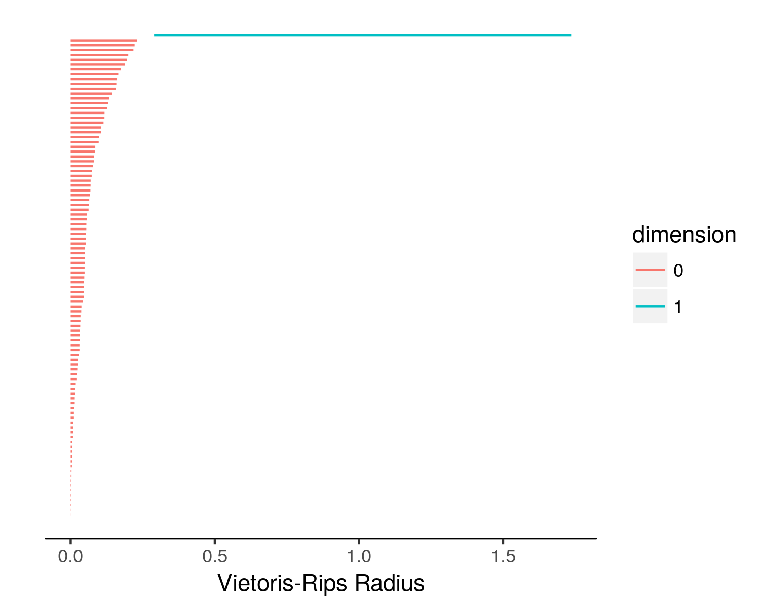 Topological barcode for a set of 100 points uniformly distributed around the circumference of a circle. The single, long 1-dimensional feature at the top of the barcode represents the only 1-cycle present in a circle. This topological barcode was created using the TDAstats R package.